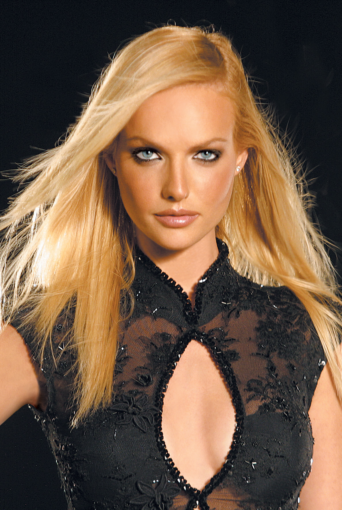 photo of Galit Gutmann